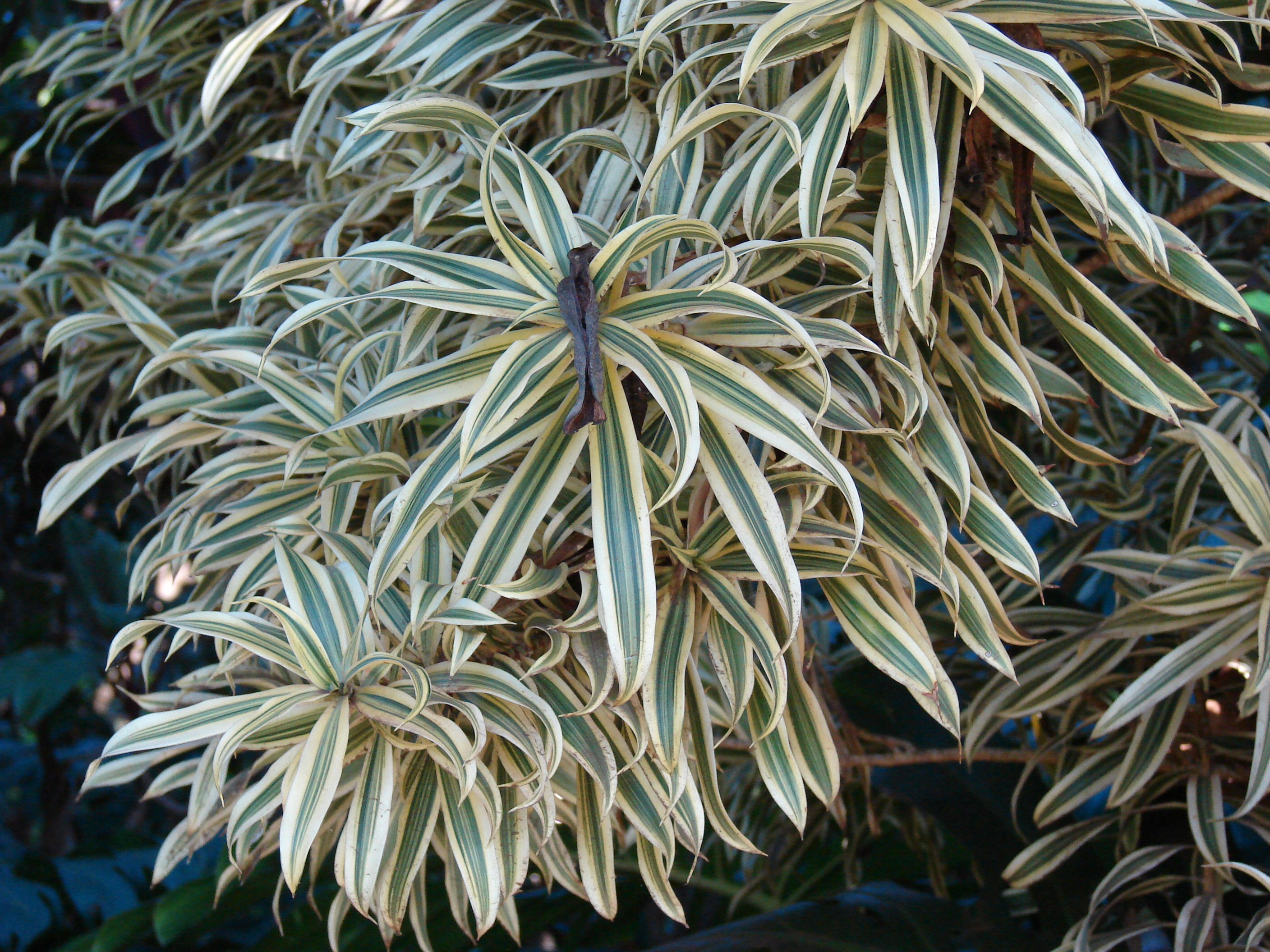 Dracaena reflexa (variegated form). Location: Maui, Enchanting Floral Gardens of Kula